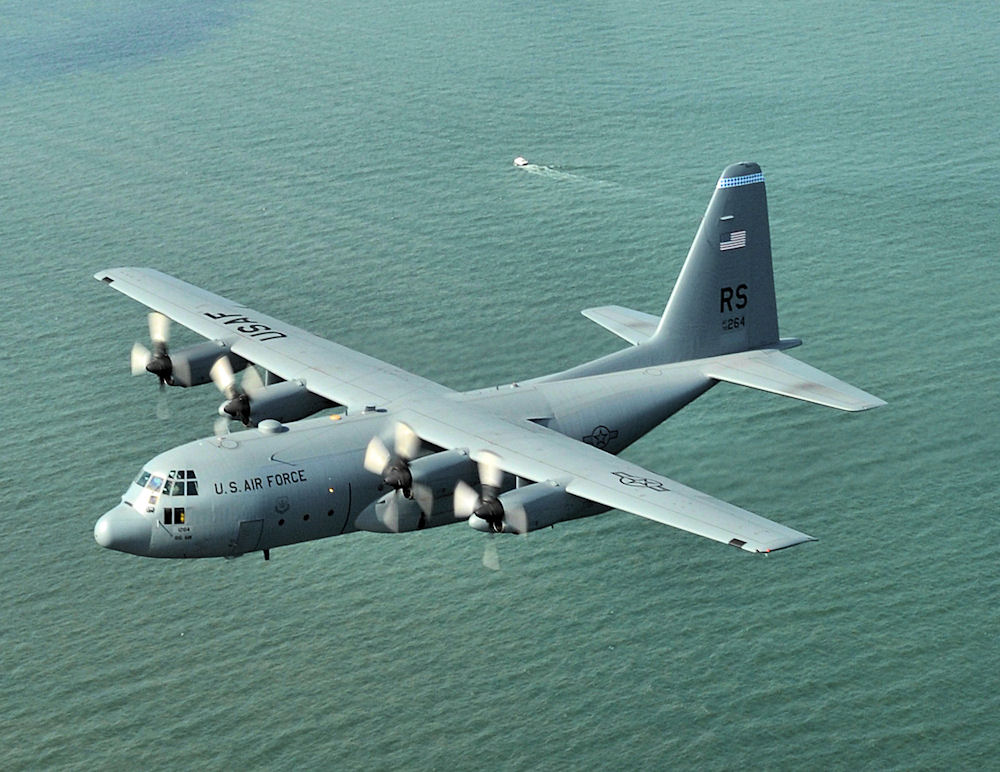 C-130 of the 86th OG Flying over the Normandy beachhead